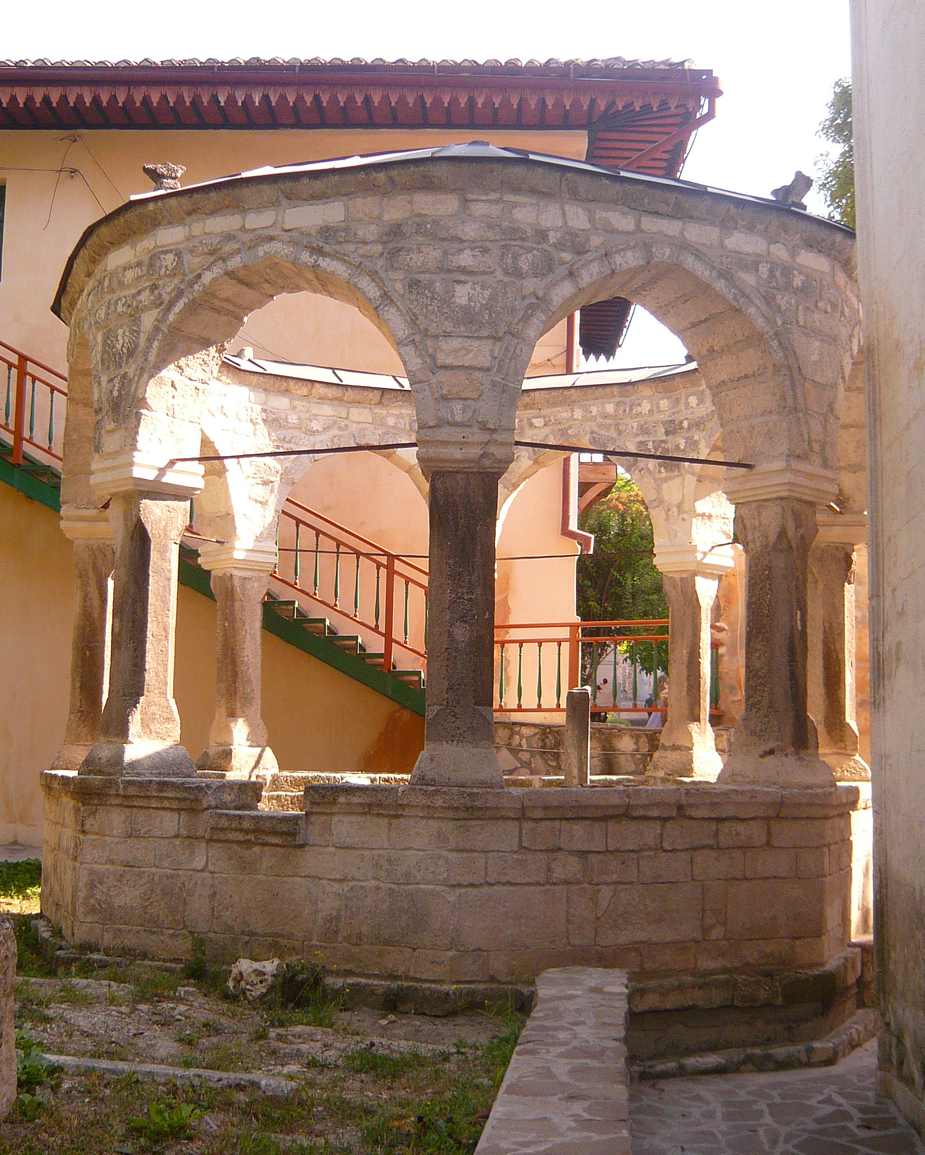 Khans cemetery in Bakhchisaray Palace